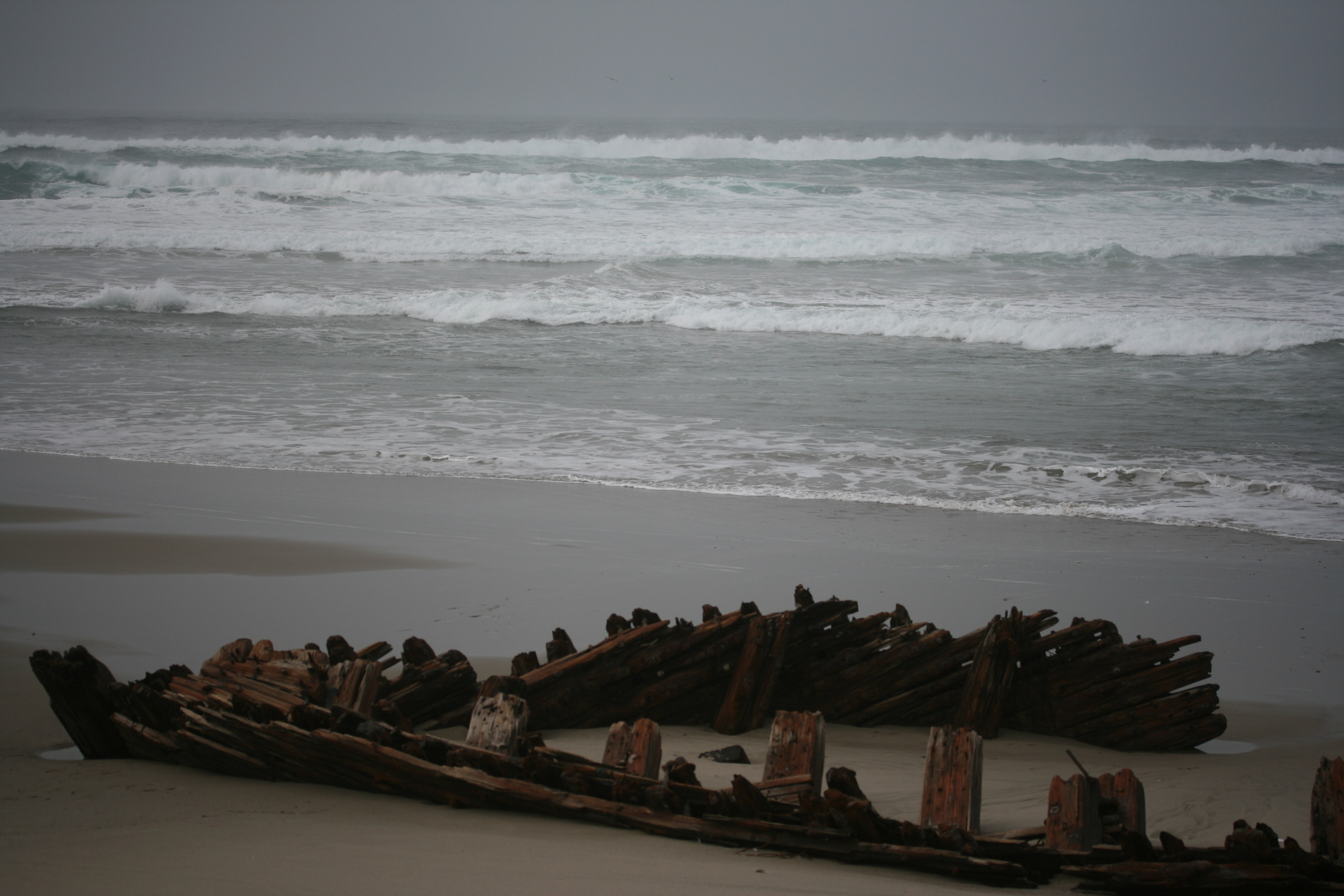 Sibyl Marston shipwreak.